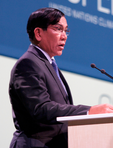 Nyan Win, foreign minister of Myanmar since September 19, 2004.